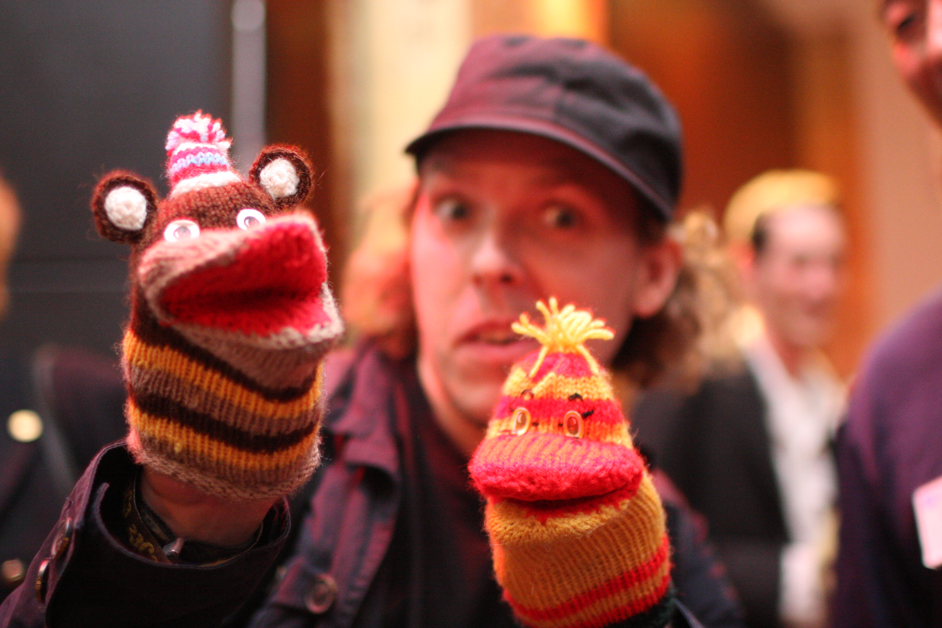 Johannes Grenzfurthner (monochrom) with the sock puppets "Kiki and Bubu" (2008).